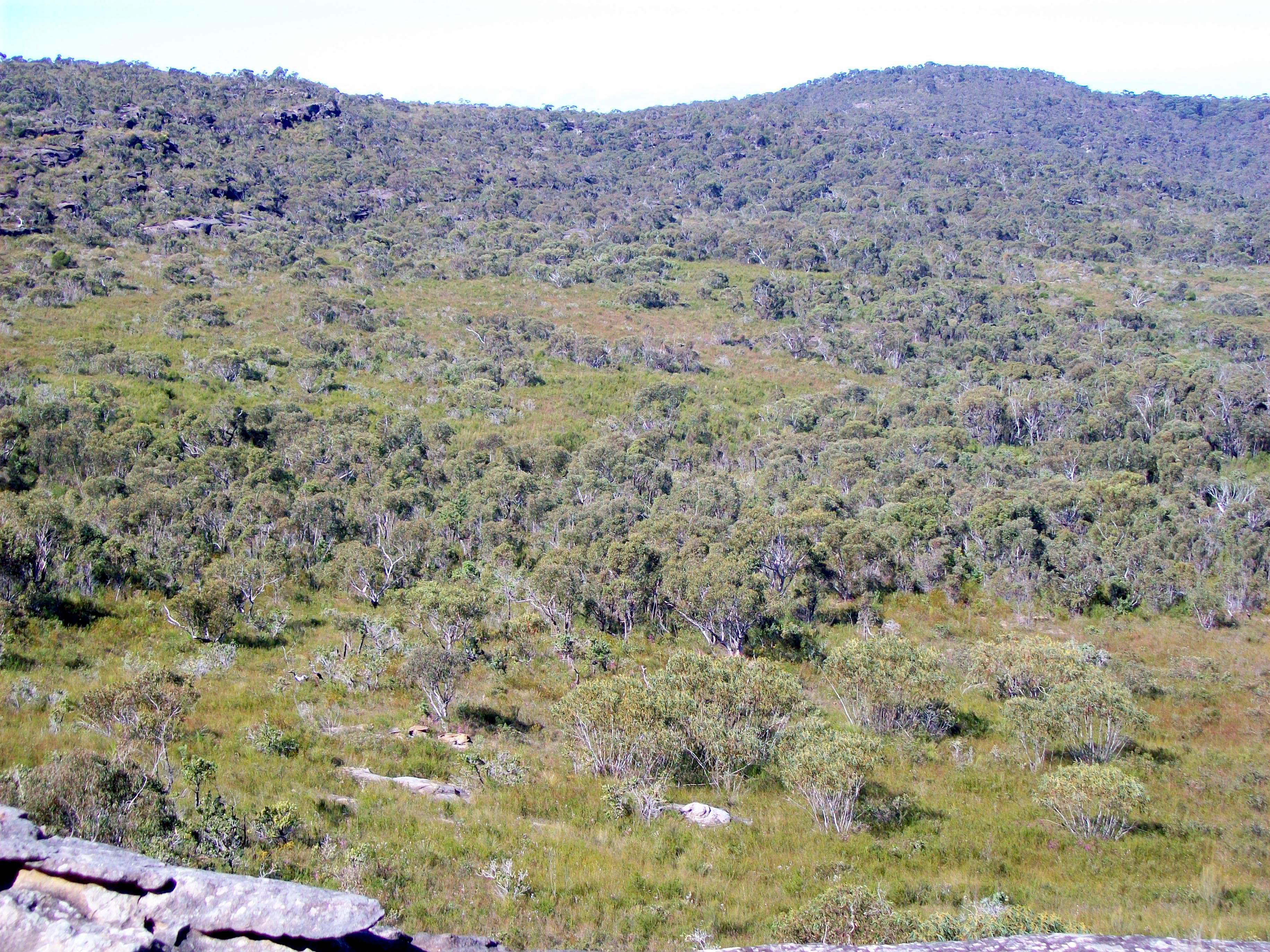 Eucalyptus luehmanniana woodland, near the Waratah Track. Ku-ring-gai Chase National Park. Sydney, Australia